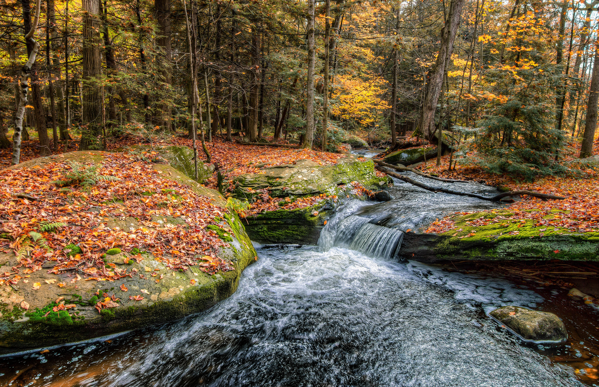 A meandering stream in the woods - taken in Rock Hill, NY